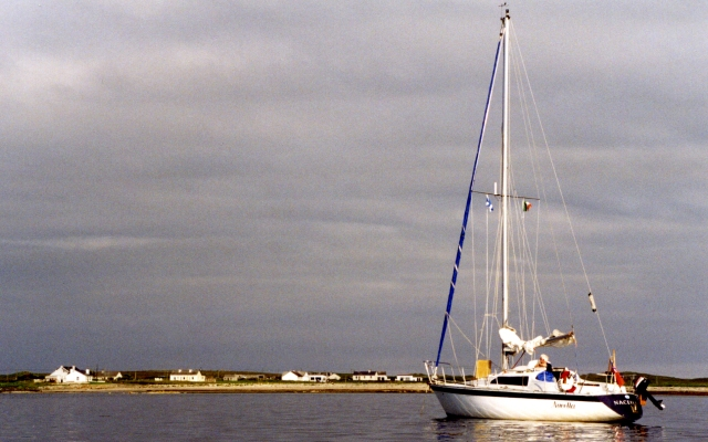 Elly Bay. A windswept anchorage in the lee of the flat Belmullet peninsula.